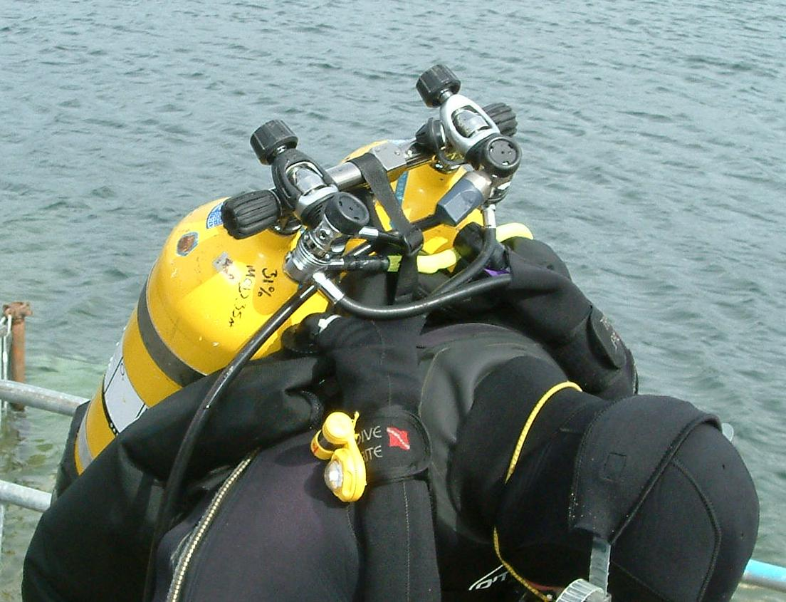 Manifolded twinset diving cylinder configuration